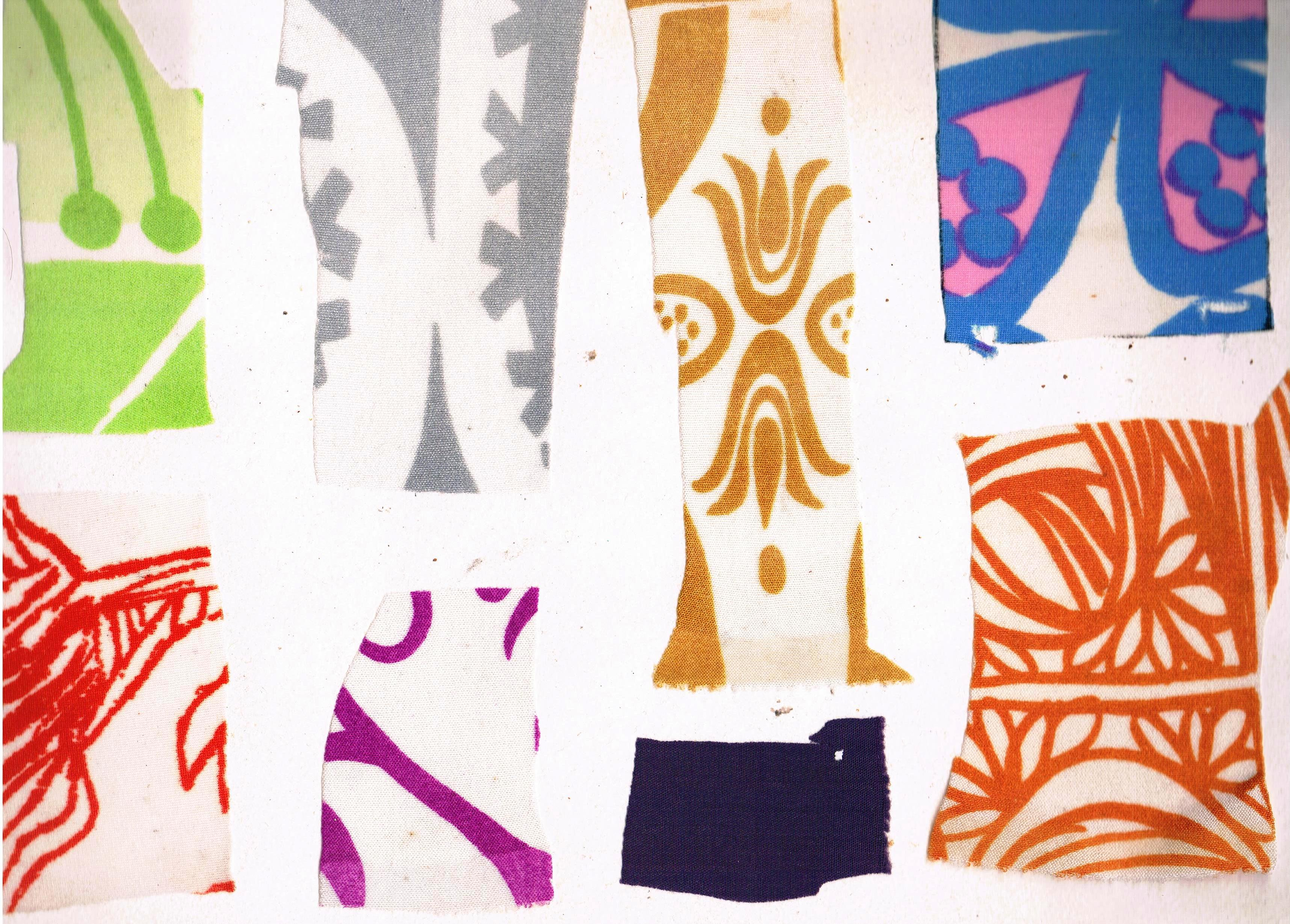 Jerry Melitz.